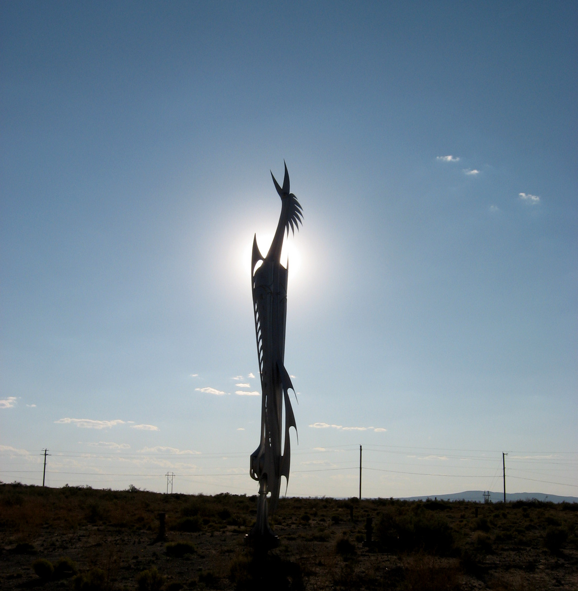 Sunrise Serenade by Starr Kemph